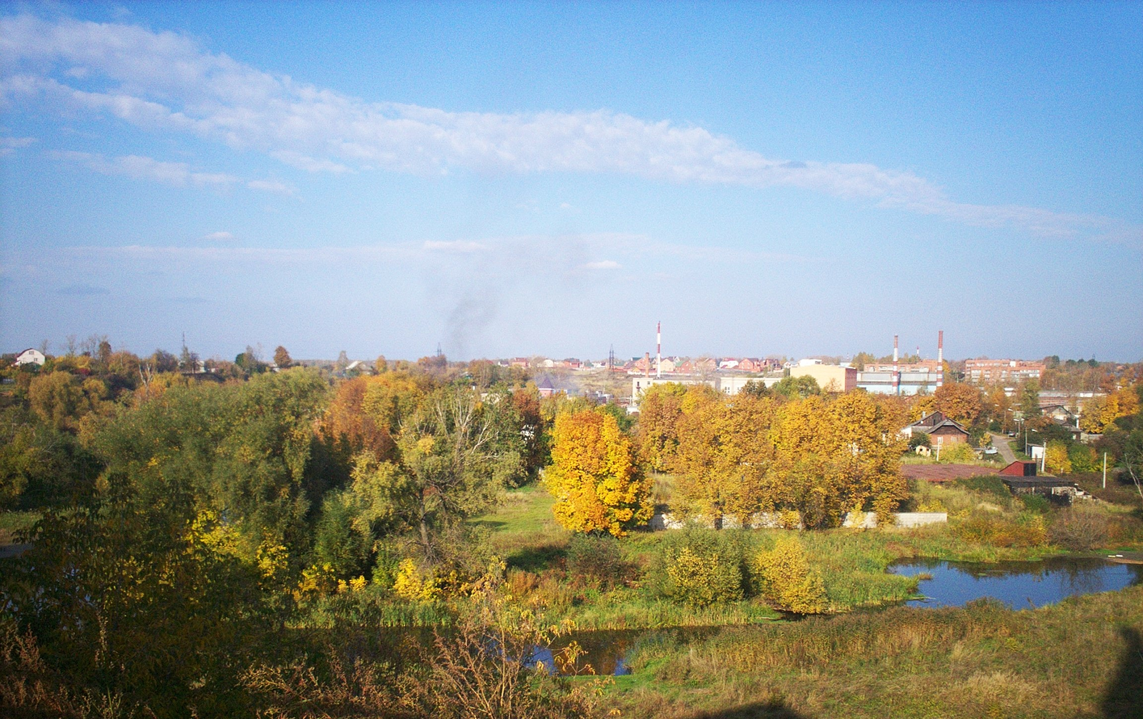 View over river and north-eastern part of Klin